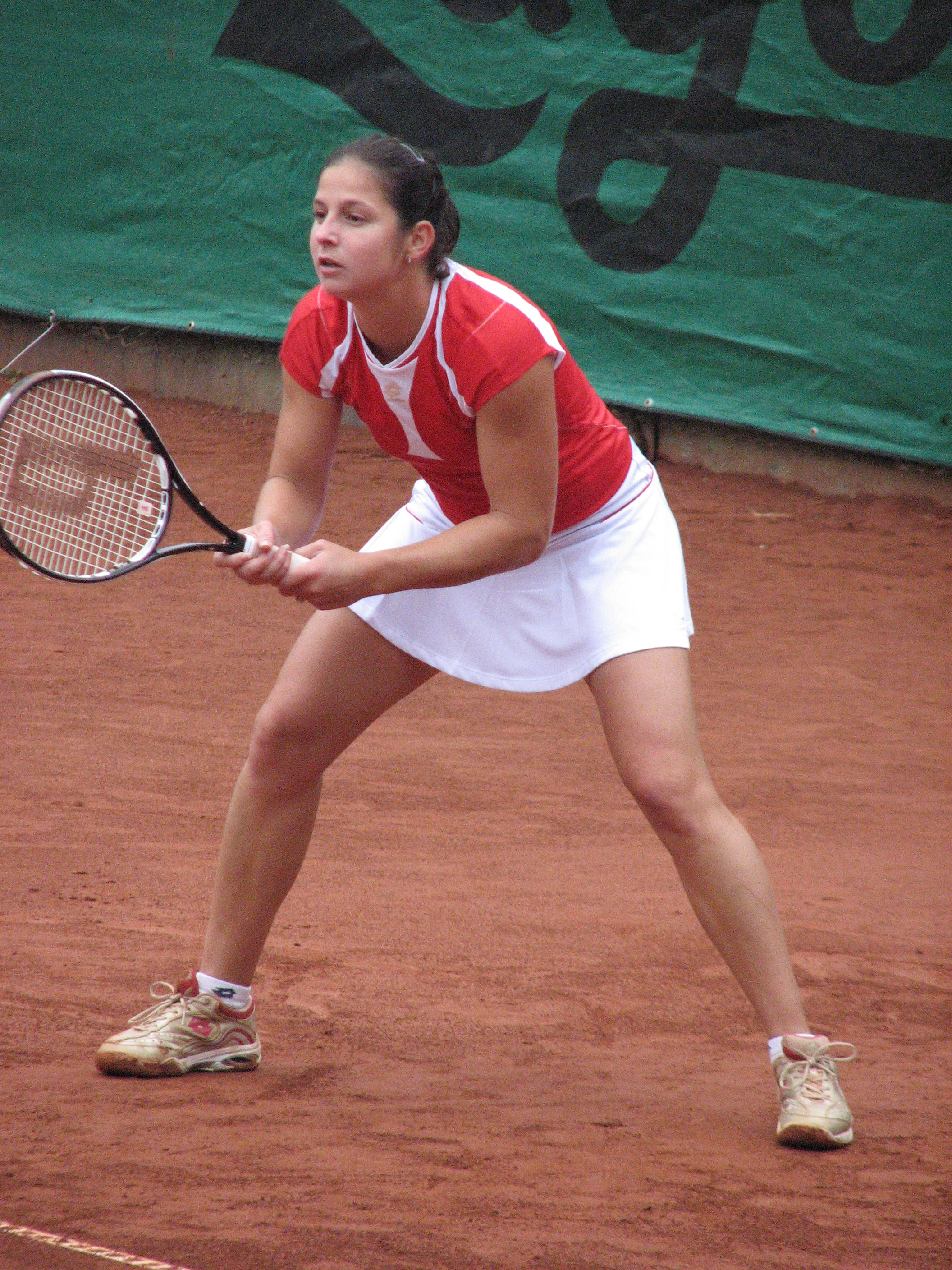 Jelena Kostanic Tosic (Allianz Cup Sofia 2008)